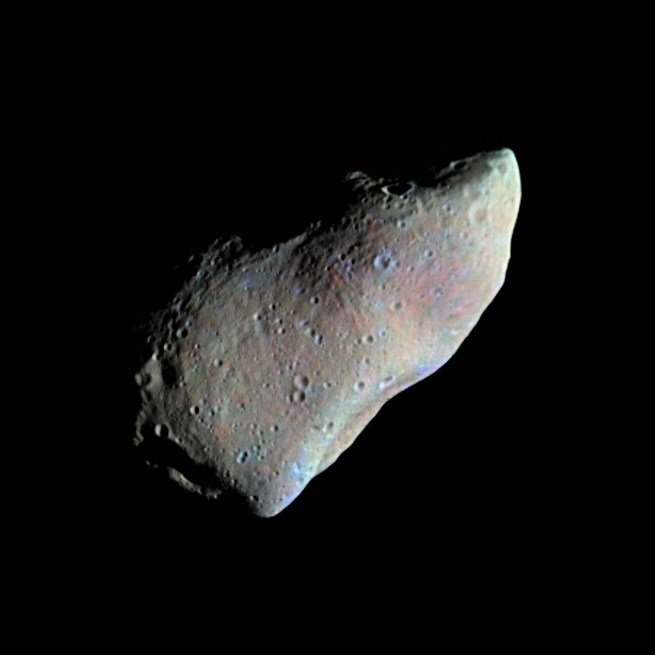 This picture of asteroid 951 Gaspra is a mosaic of two images taken by the Galileo spacecraft from a range of 5,300 kilometers (3,300 miles), some 10 minutes before closest approach on October 29, 1991.